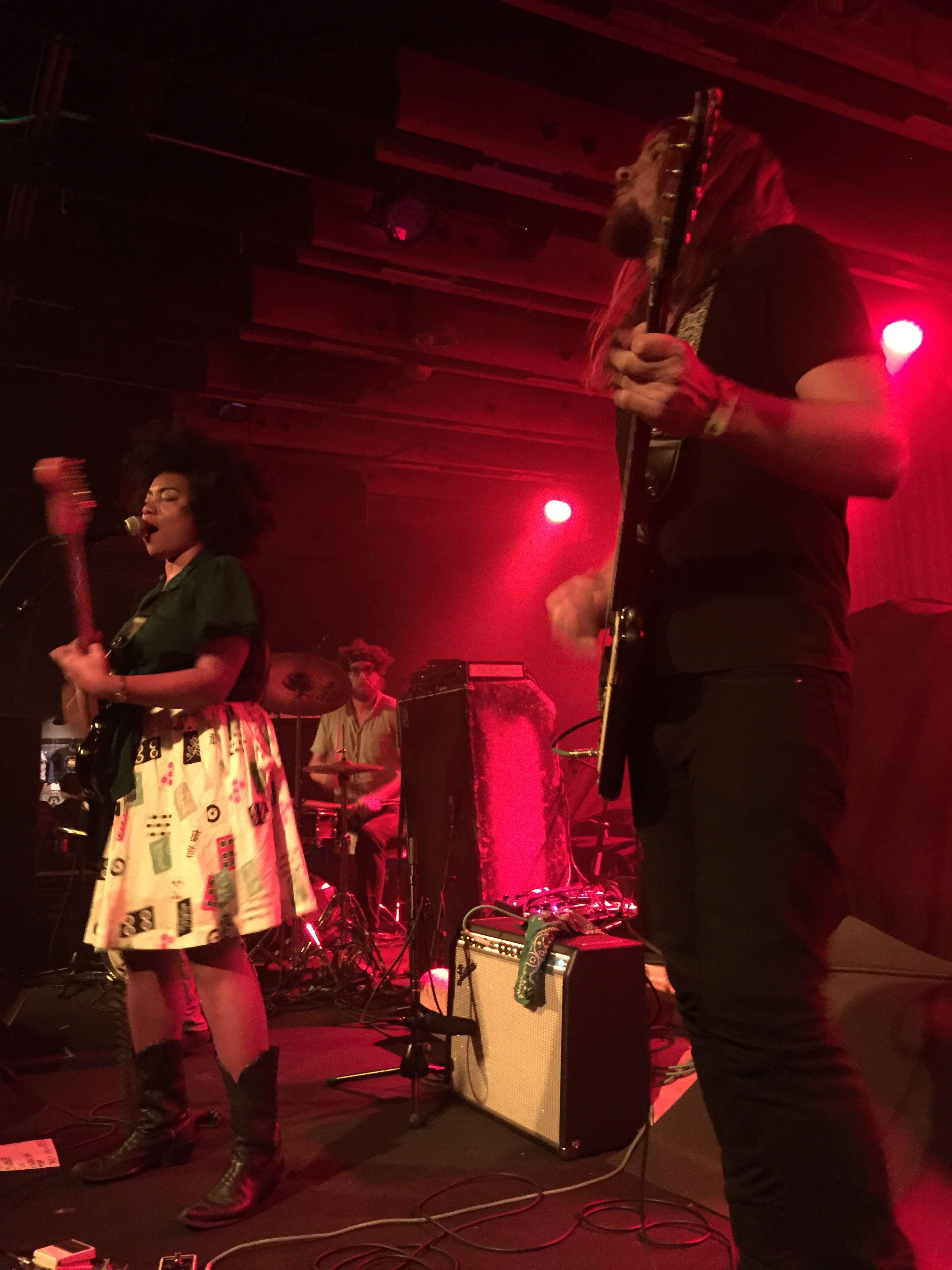 Seratones playing at the Crescent Ballroom, Phoenix, Arizona, on 15 September, 2016.